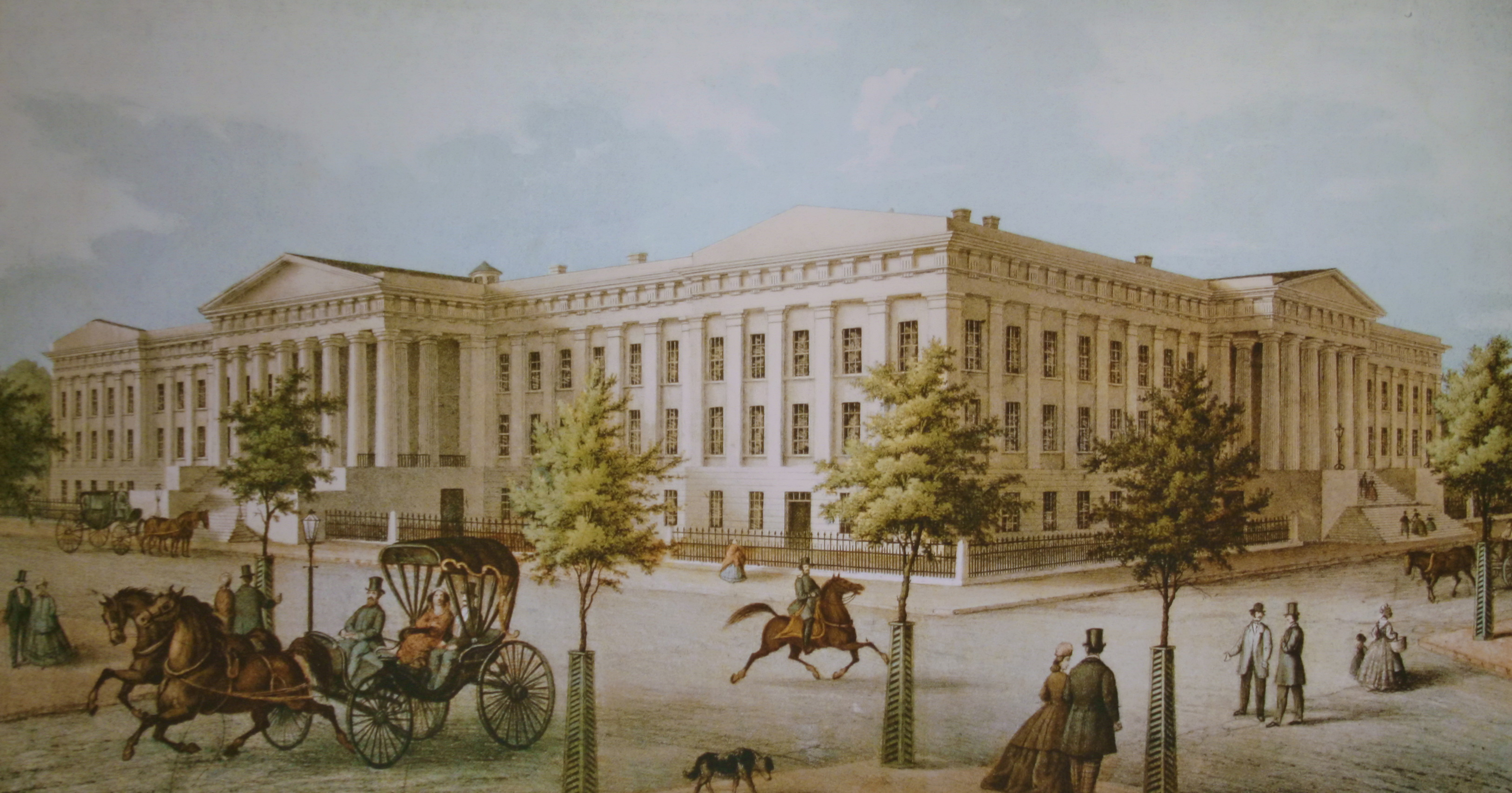 The Patent Office, c. 1855, Edward Sachse & Co. chromolithograph, From the original in the National Portrait Gallery Smithsonian Institution On a swell of ground midway between the President's House and the Capitol, city planner Pierre Charles L'Enfont (1754—1825) set aside a square of land for a nondenominational national cathedral or a pantheon to American heroes. To the south of it, he linked, physically and symbolically, the two seats of government with the grand Pennsylvania Avenue. With a few strokes of his pen, L'Enfant changed the destiny of the scattered forms and tobacco fields that made up Washington in 1 791. Over the next century, the square mile north of the avenue between the White House and the Capitol became the cultural and commercial center of Washington. The practical young nation replaced L'Enfant's idea of a cathedral in 1836 with the Patent Office, a monument to American ingenuity that still stands at the center of a changing neighborhood after 174 years.